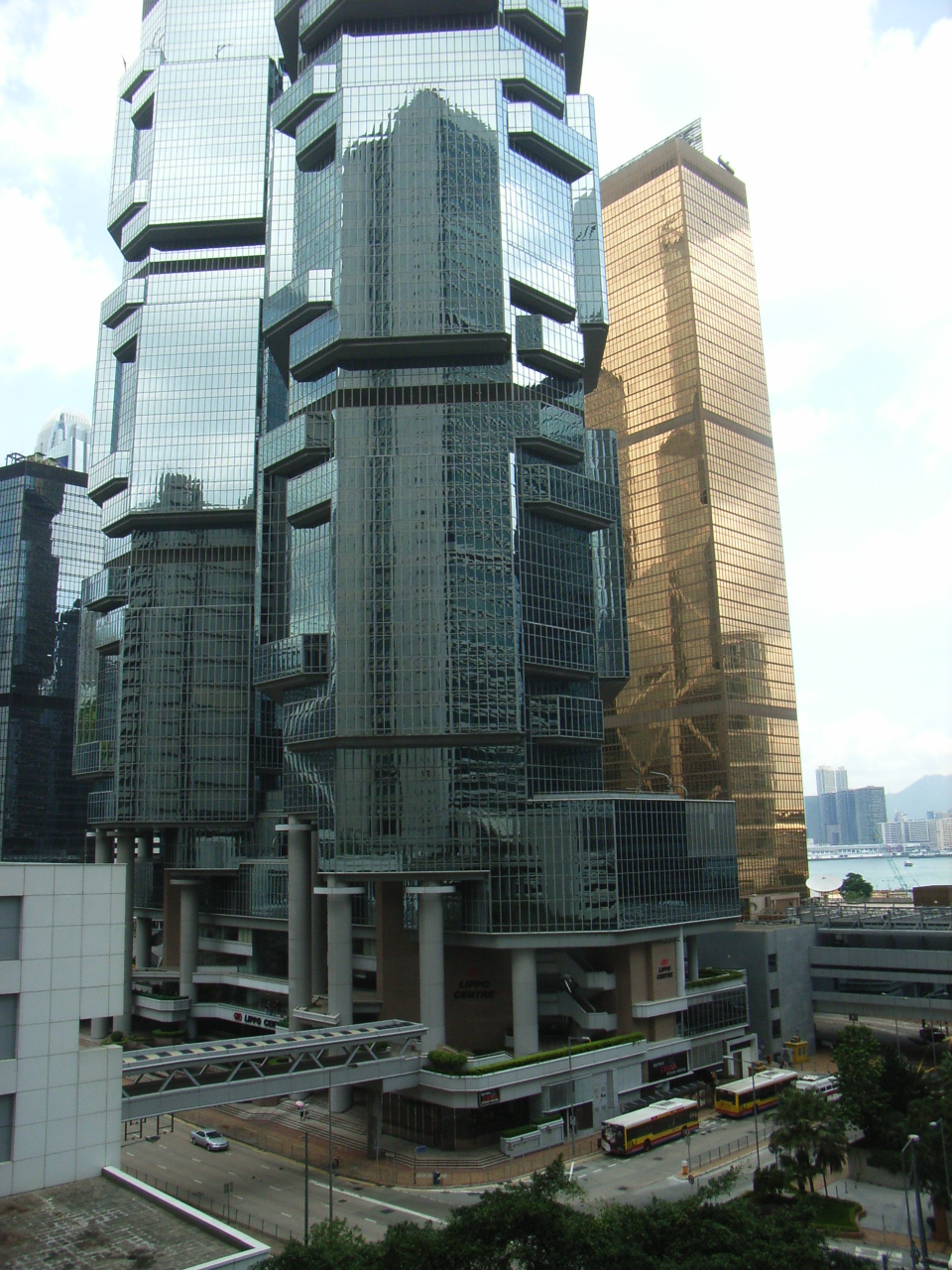 Queensway Bay Road, HK Island Photo by